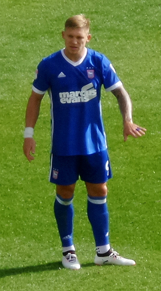 Martyn Waghorn on his Ipswich Town league debut against Barnsley on 12 August 2017